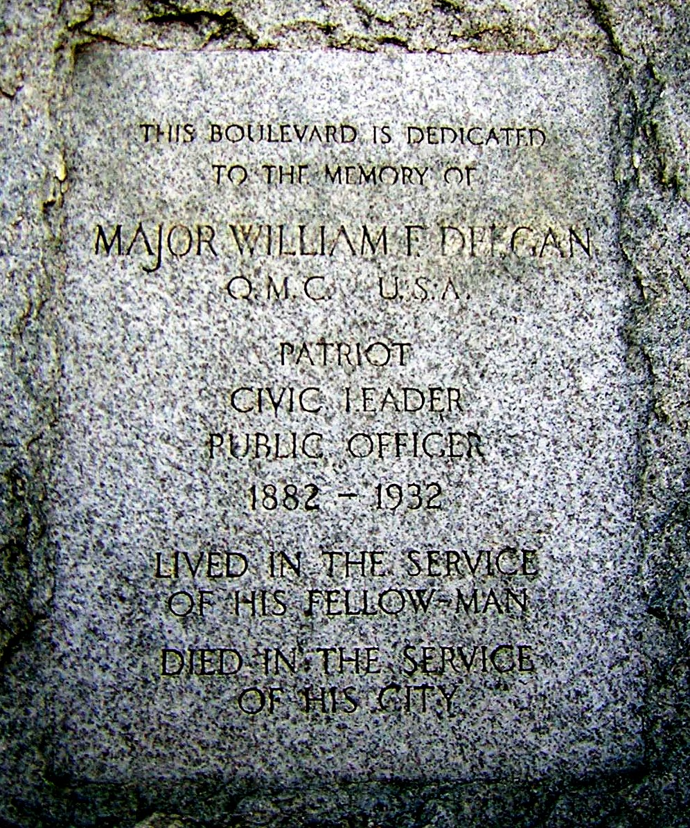 Looking south at a stone on the east side of Degan Expressway, south side of E138th Street, memorializing the Major.